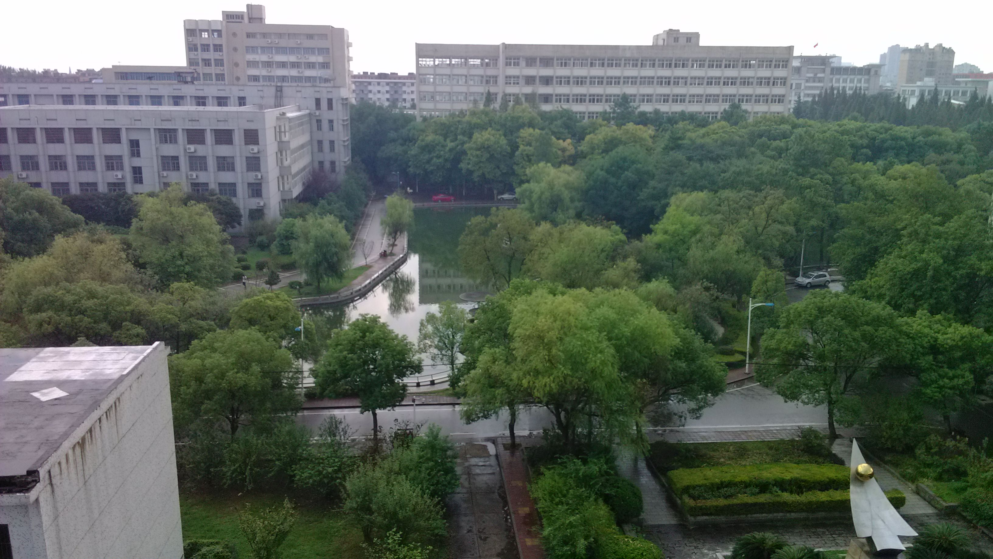 Nanchang university institute of science and technology after raining中文（中国大陆）: 雨后南昌大学科技学院中文（台灣）: 雨後南昌大學科技學院